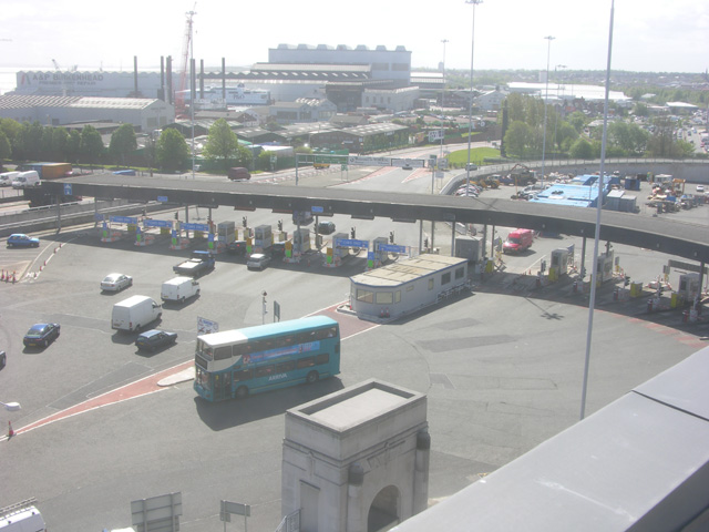 Mersey Tunnel Toolbooths, Birkenhead